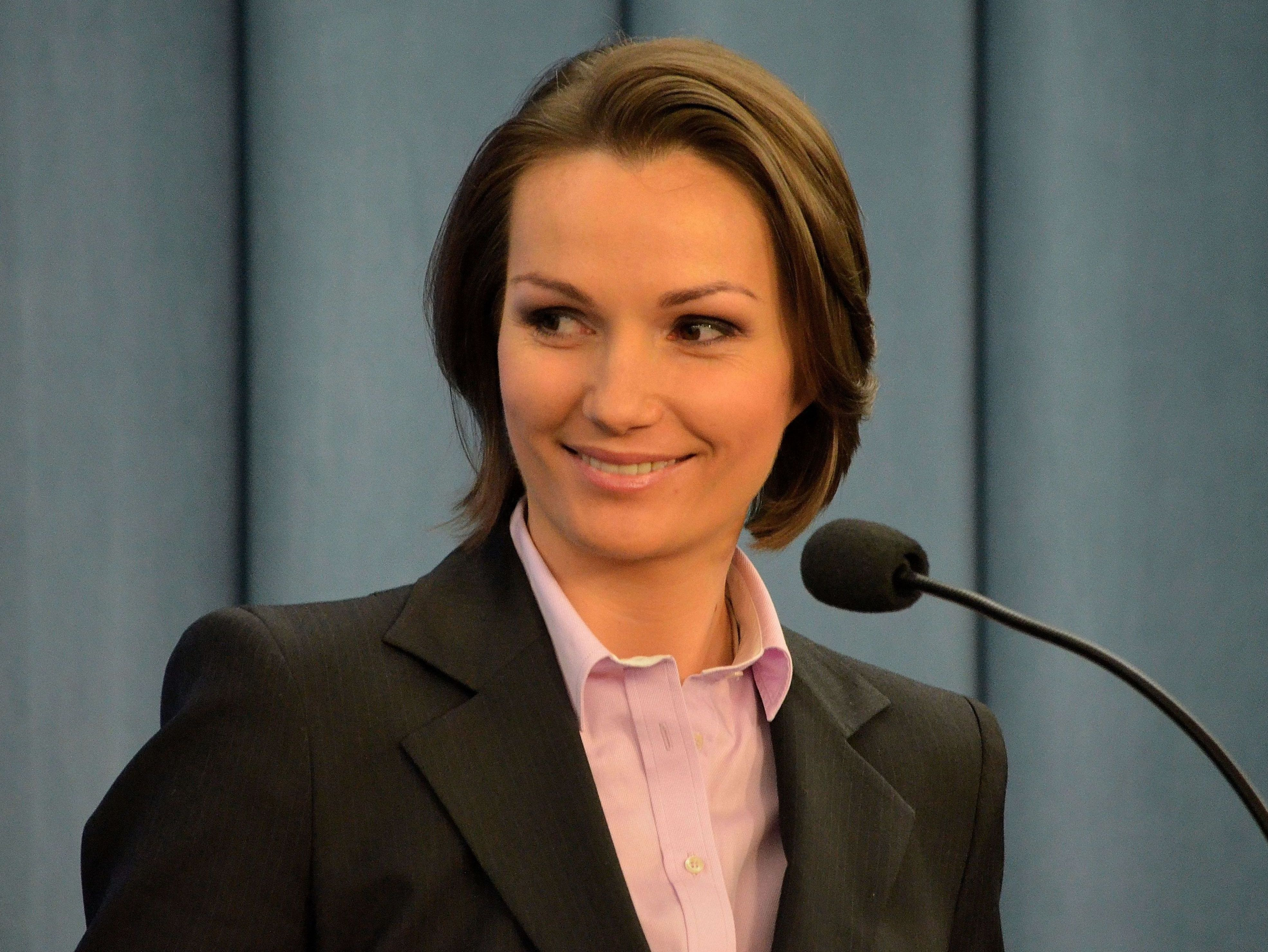 Polish MP Jagna Marczułajtis-Walczak at a press conference in the Sejm